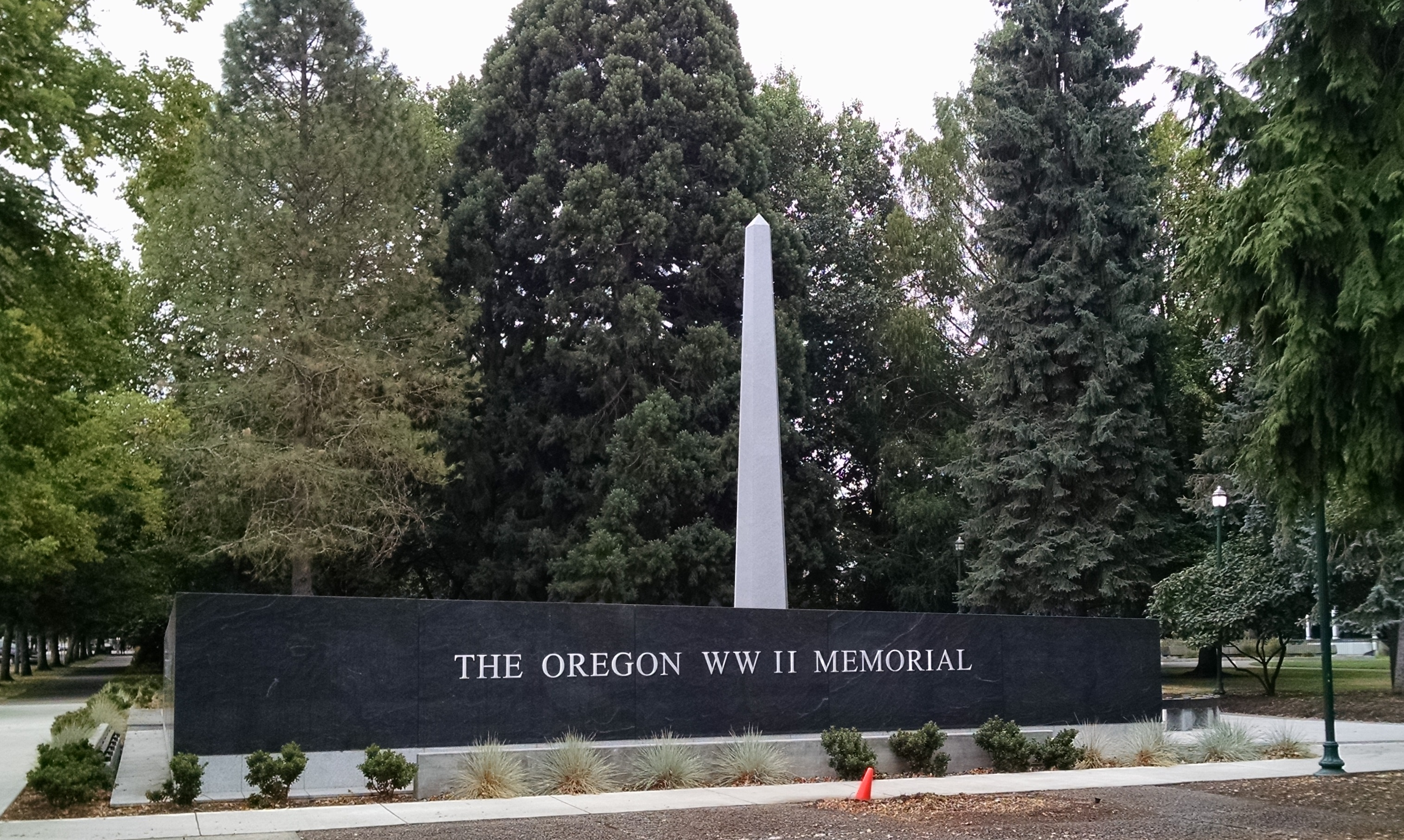 Oregon World War II Memorial in Salem, Oregon